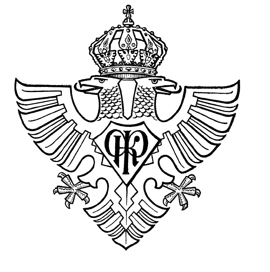 An Eagle, Simbol of Journal of Yugoslavian Financial Control/Financial Guard (Finansijska kontrola)